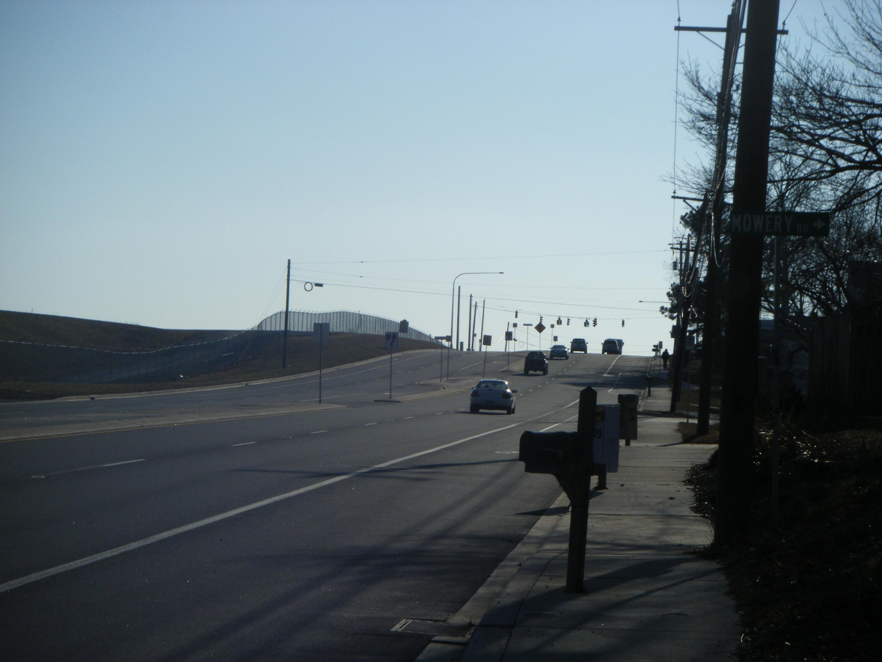 Southbound Delaware Route 37 (Airport Road) approaching the intersection with Old Churchmans Road near the New Castle Airport in New Castle, Delaware